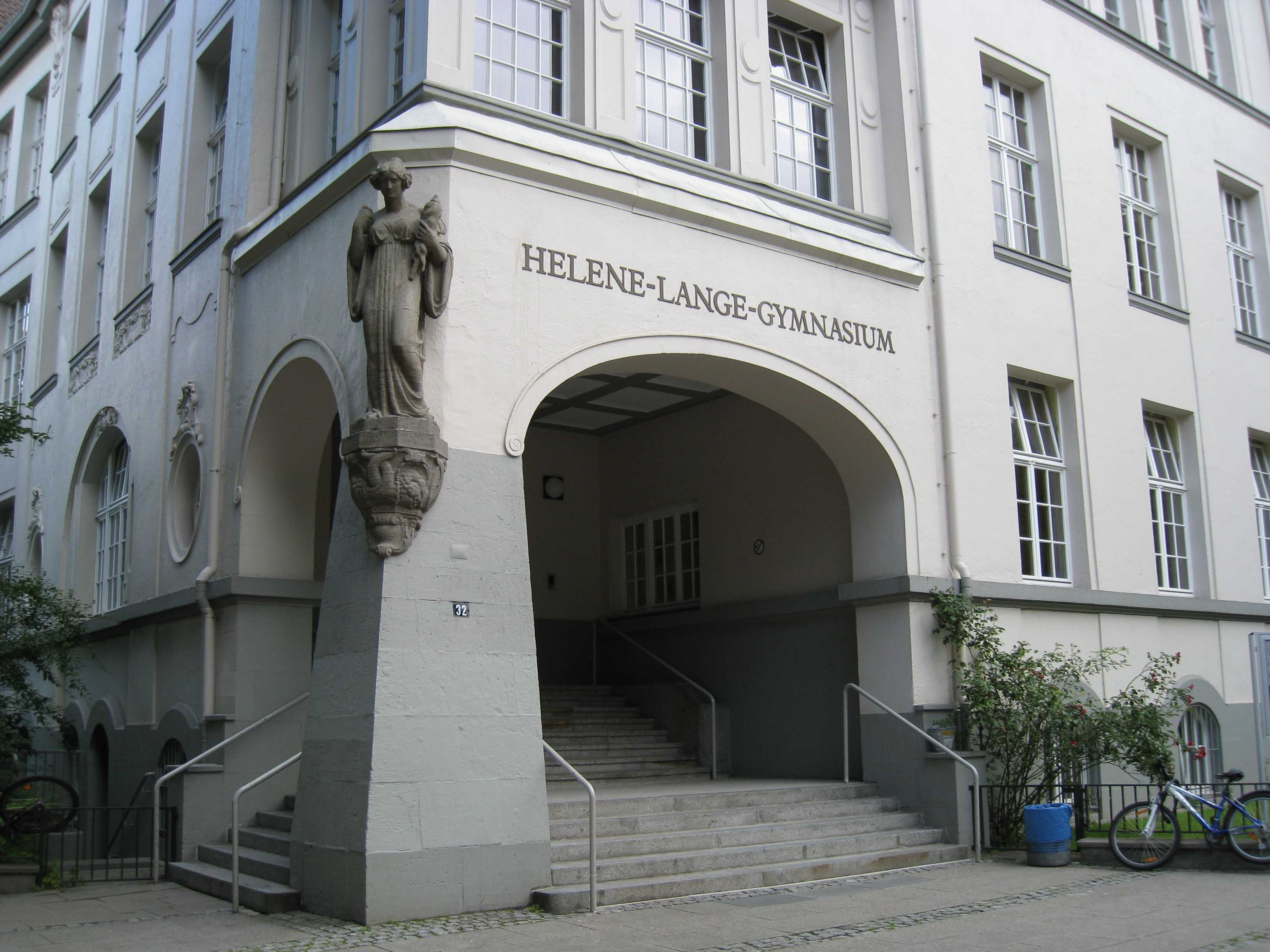 Entrance to the school Helene-Lange-Gymnasium in Hamburg, Germany.